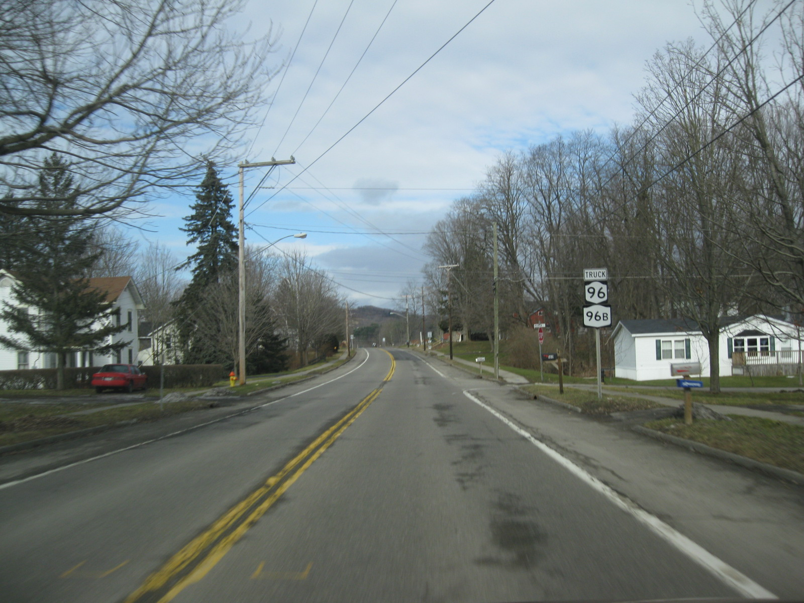 New York State Route 96B and State Route 96 Truck heading northward through Candor.